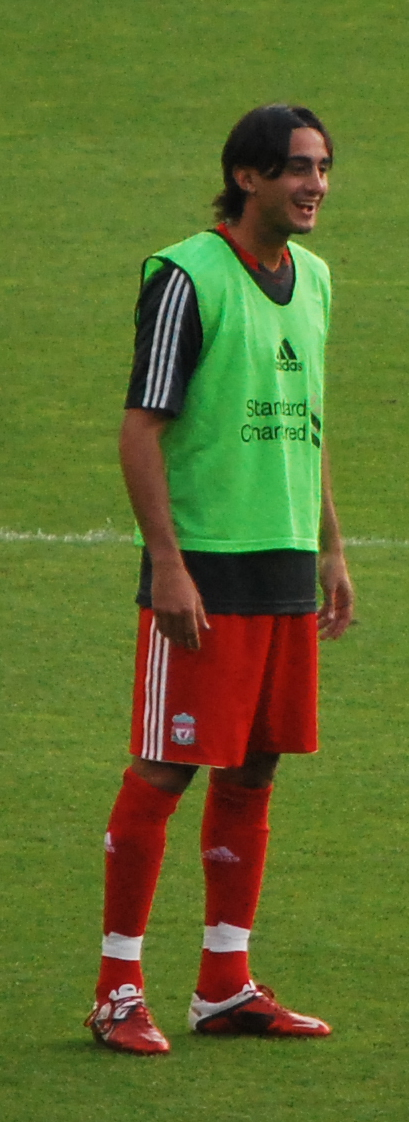 Alberto Aquilani playing for Liverpool.